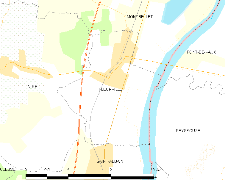 Map of French municipality